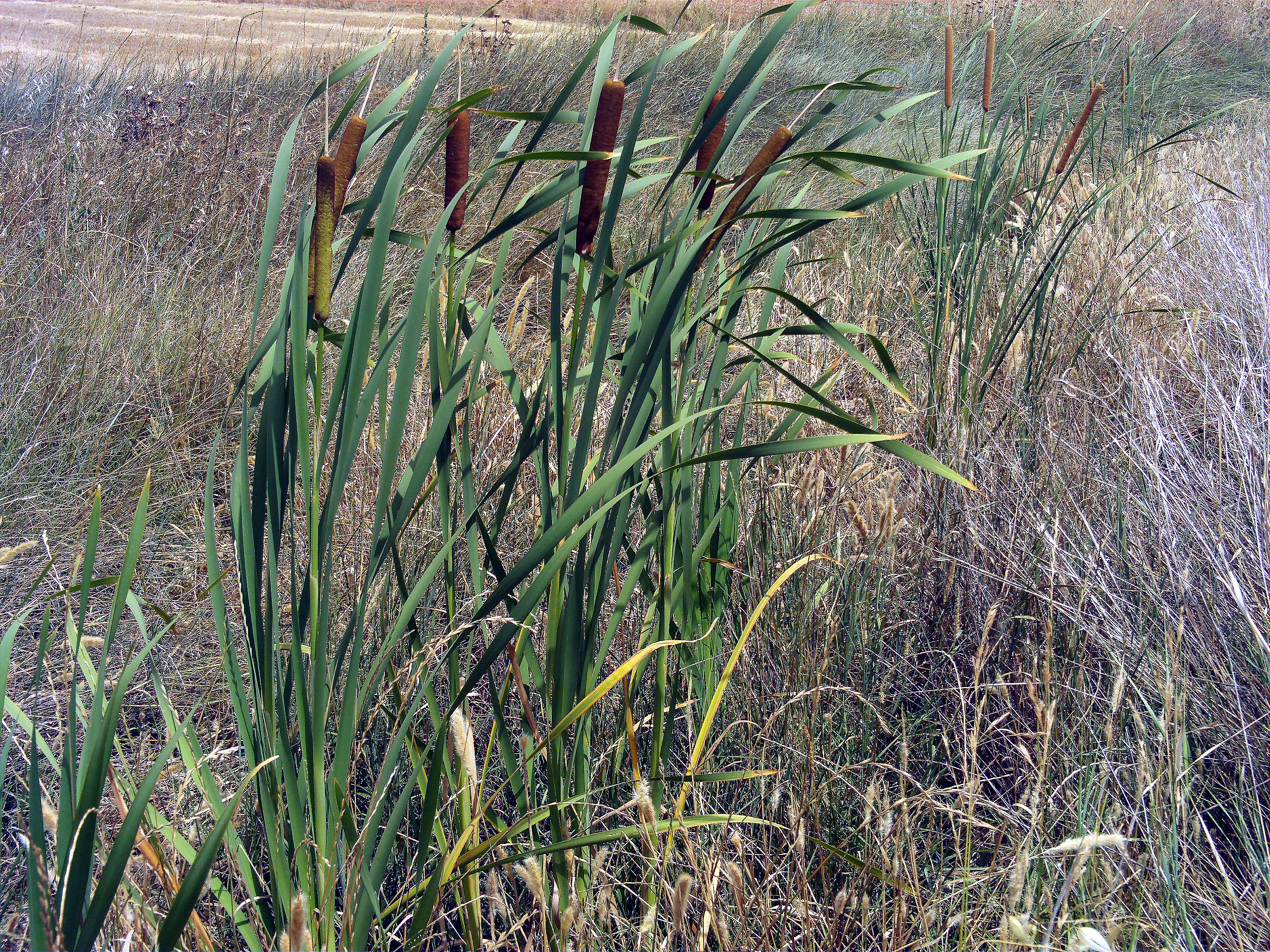 Typha domingensis, Campo de Calatrava, Spain